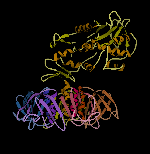 Crystal structure of the STx1 holotoxin from Shigella dysenteriae. The B subunits are at the bottom, the A subunit ıs the large structure on top. When the B subunits bind their receptor, the membrane would be at the bottom of the picture.